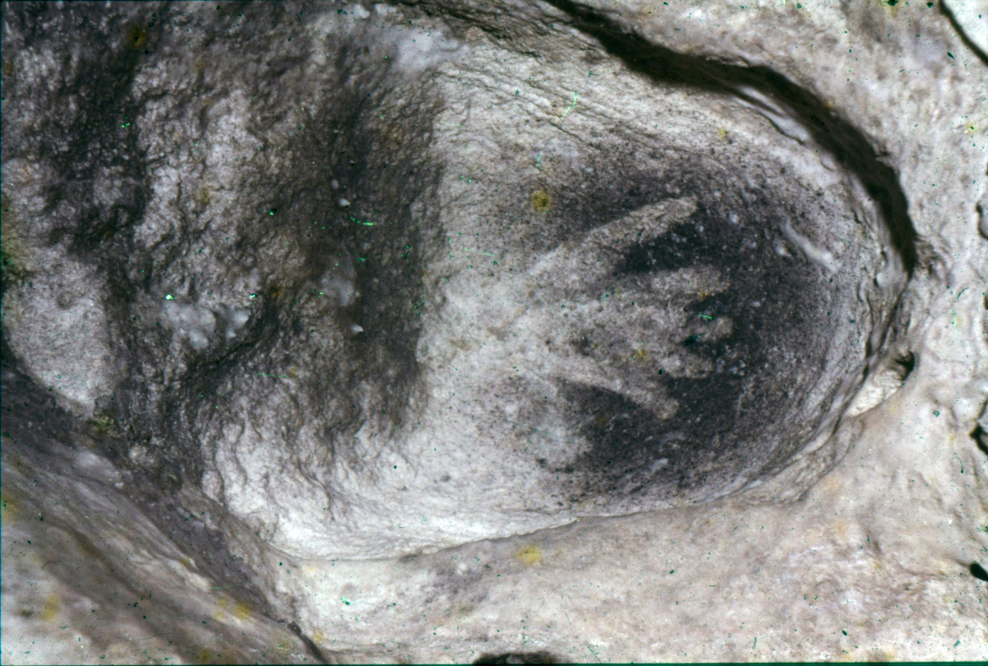 Hand in reservation.